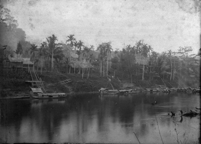 View from the Kahajan-river on the Dayak village Tumbanganoi, Central-Borneo.